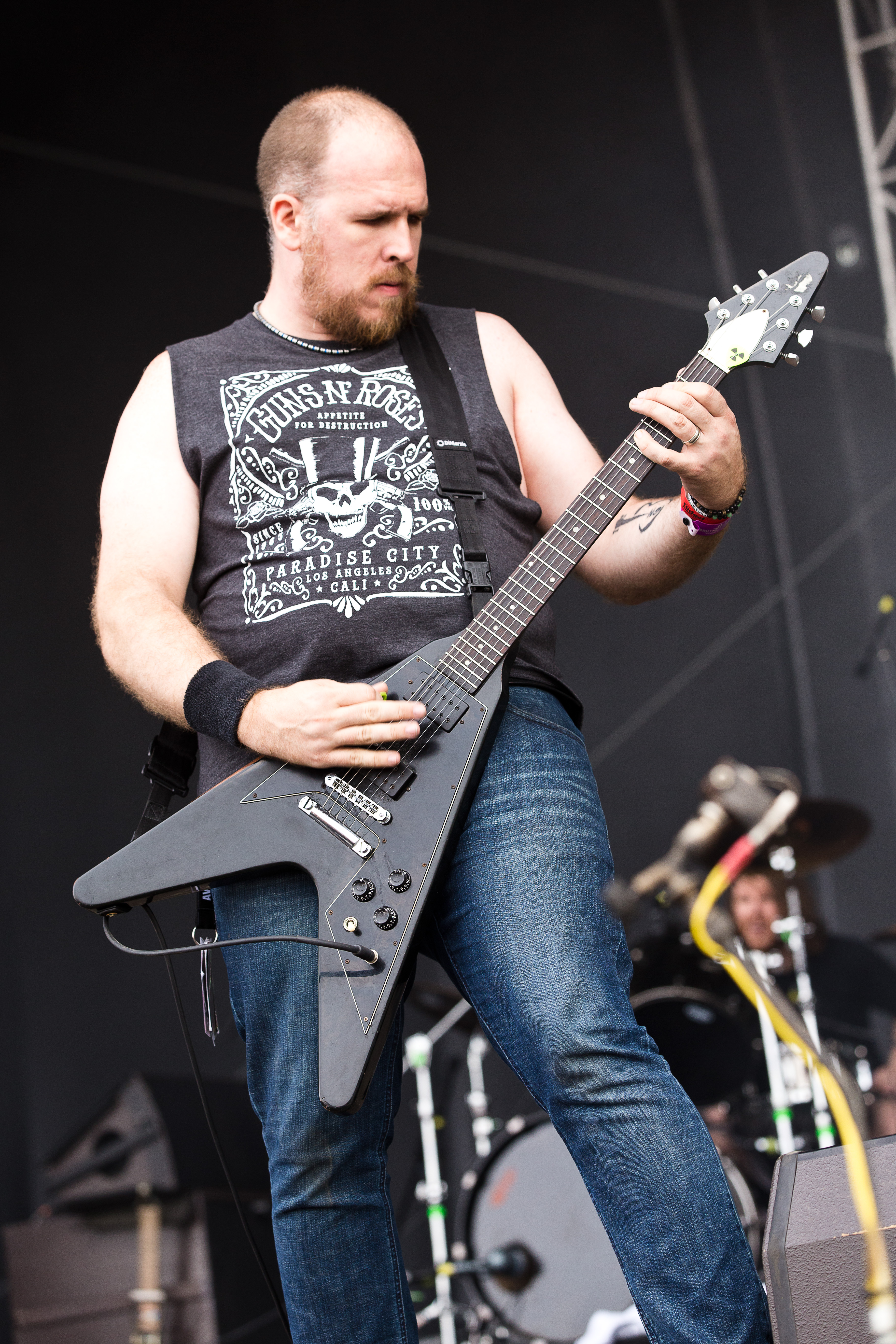 The American thrash metal band Toxic Holocaust at the Party.San Open Air 2015 in Obermehler-Schlotheim/Germany.